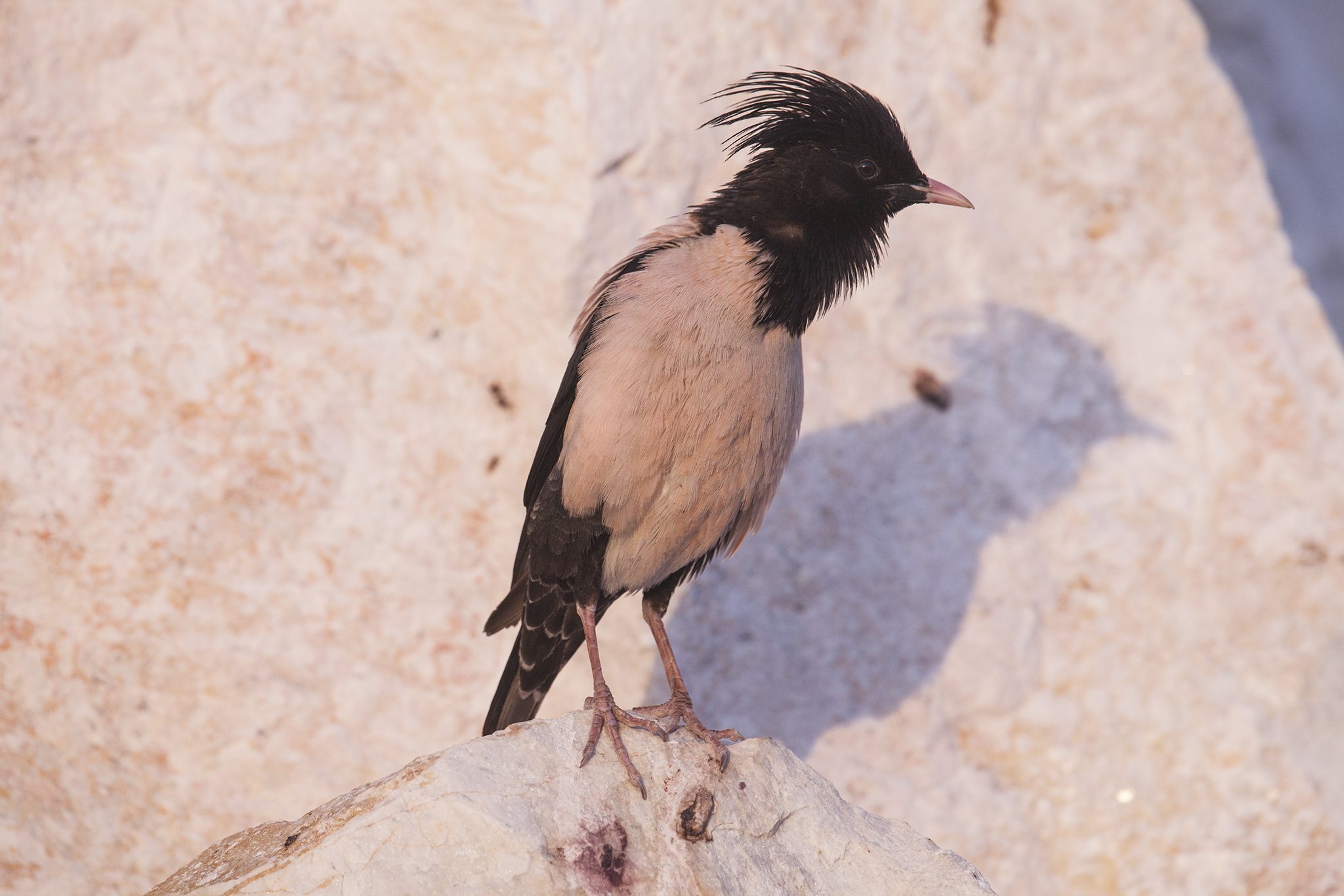 Rosy starling